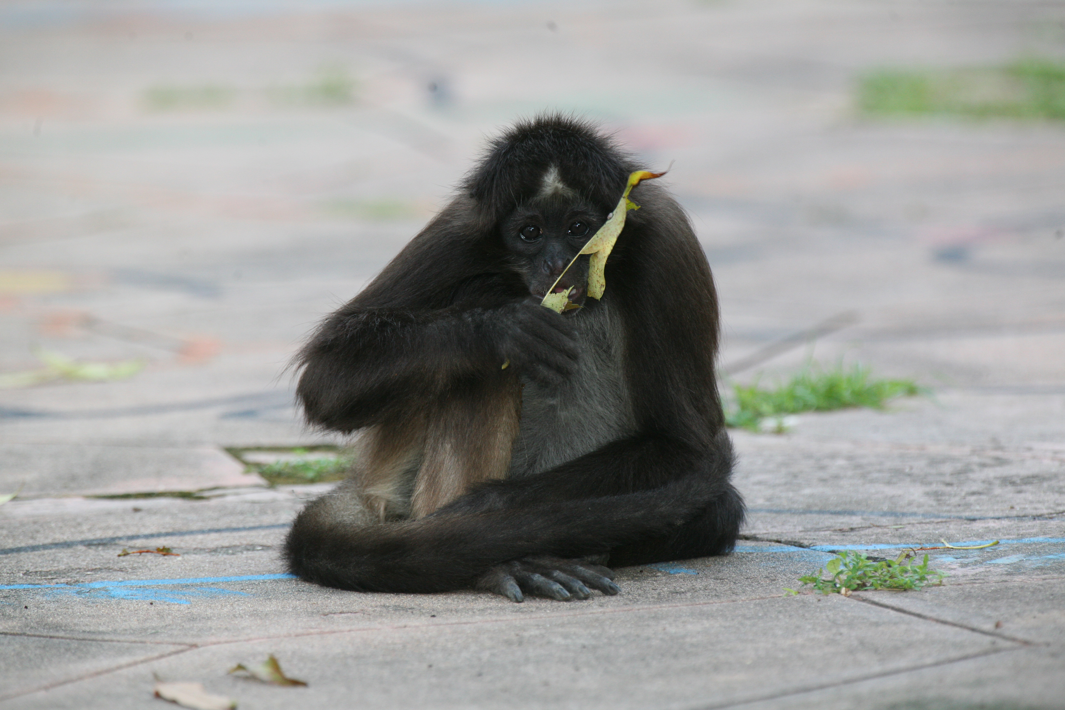 Black-headed Spider Monkey at Finca Biotematica de Megua, near Baranoa, Colombia